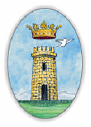 Coat of arms of Italian city Misilmeri